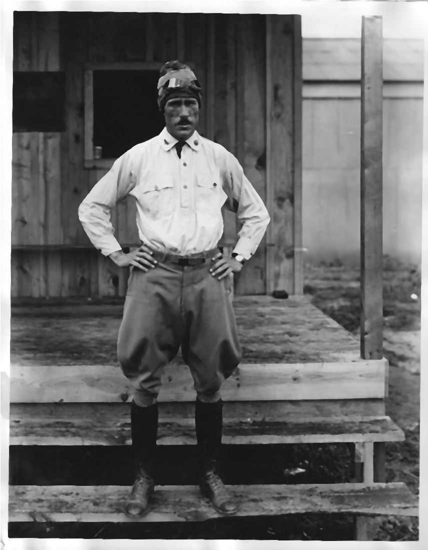 United States military man Clarence L. Tinker. The first Native American Major General in the United States Army, he was the first American general killed in World War II, at the Battle of Midway. Tinker Air Force Base was named in his honor.